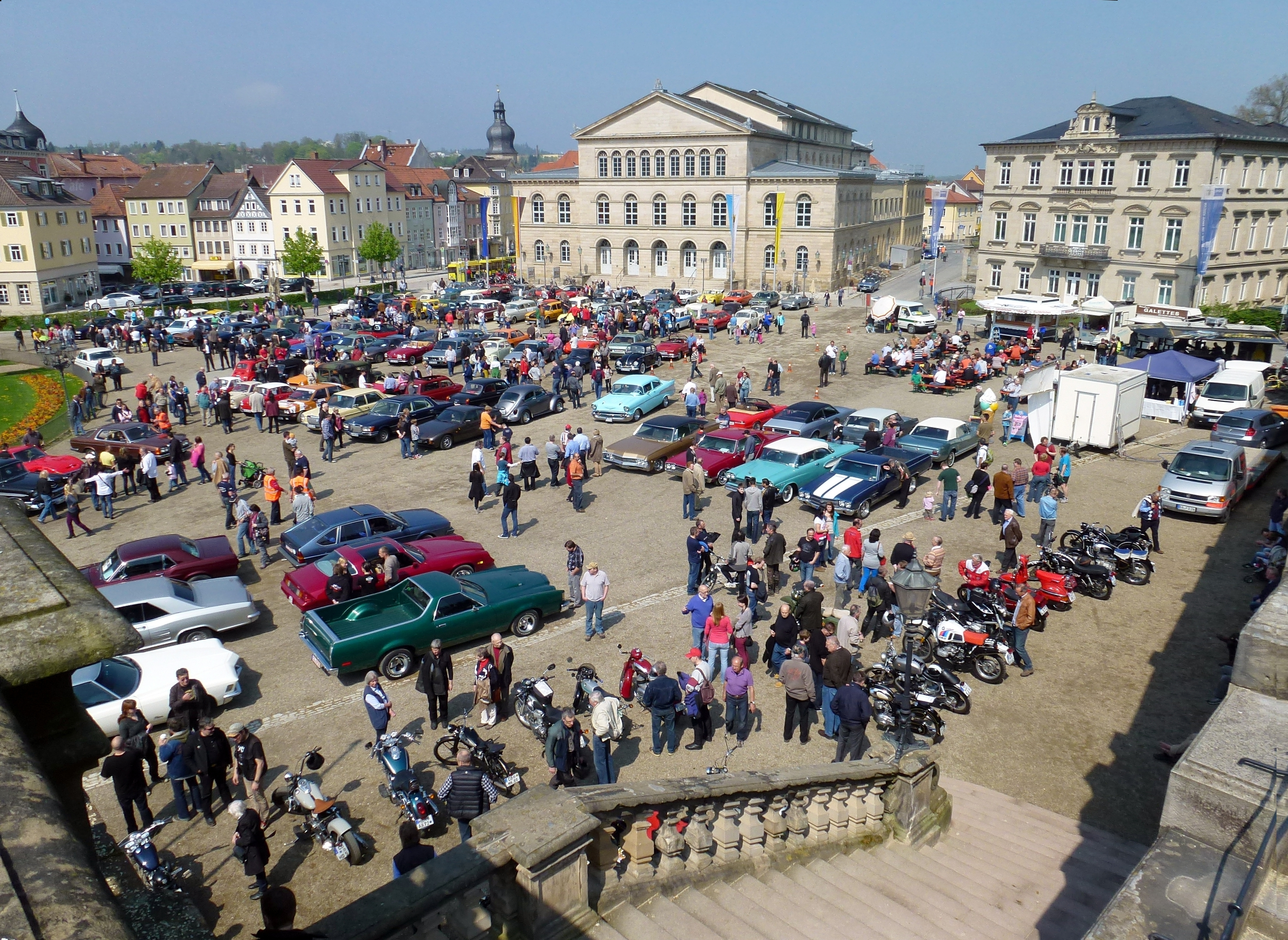 MSC Coburg - 10 vintage and classic cars meeting of 5 May 2013 the Coburg Schlossplatz